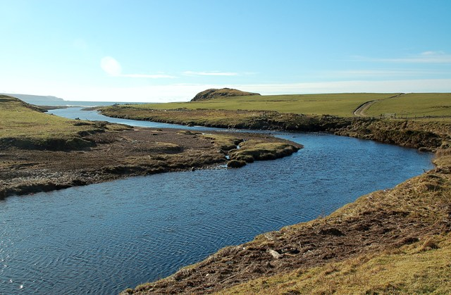 The Laggan River Looking towards Laggan Bay, where the river enters the sea. The hill in the background is Cnoc Ebric, the site of an Iron Age hill fort, in the same square.